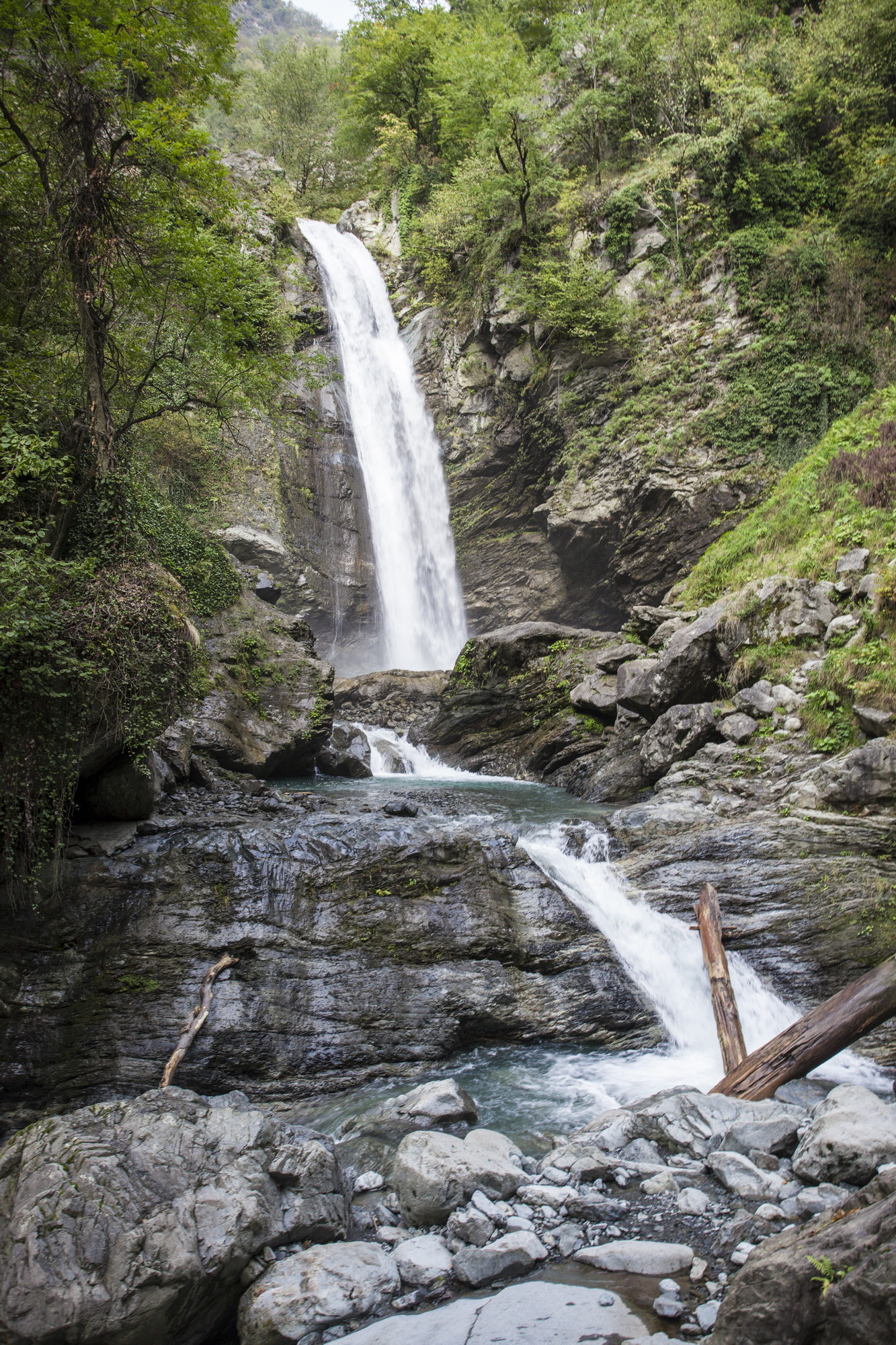 Lagodekhi Protected Areas - one of the world’s best-preserved, primitive area with diversity of natural landscapes – is located in Lagodekhi, in the extreme north-eastern part of the southern slopes of the Caucasus and extends at an altitude of 590-3500 m. Lagodekhi Protected Areas includes Lagodekhi Nature Reserve (19749 ha) and Managed Reserve (4702 ha). The latter creates optimal conditions for understanding of nature through infrastructure developmen related to education and recreation works. At present there are five breathtaking, safe and informative tourist trails in managed reserve of Lagodekhi Protected Areas, namely: Grouse waterfall, Ninoskhevi waterfall, Machi castle, Black Rock Lake and knowledge of nature trail.